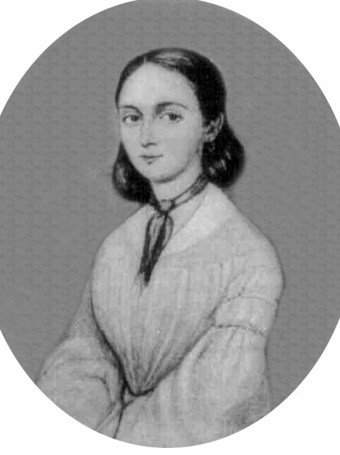 Helena Gan - mother of Helena Blavatsky